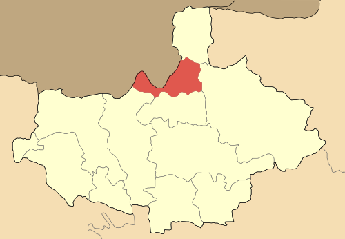 Locator map of Doiranis municipality (Δήμος Δοϊράνης) at Kilkis perfecture, Greece.